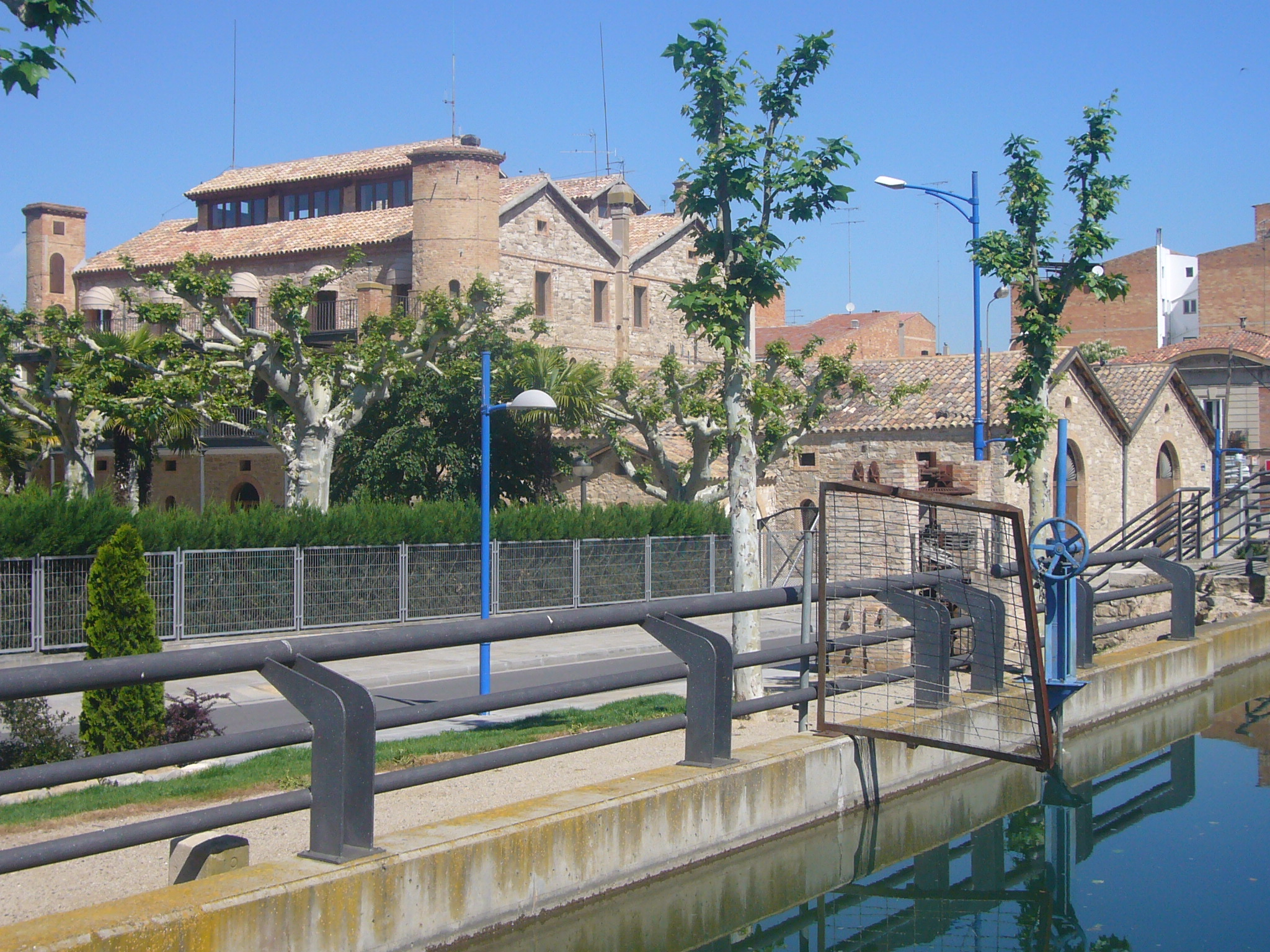 Casa del Canal d'Urgell (Mollerussa) amb la sèquia tercera del canal passant per davant